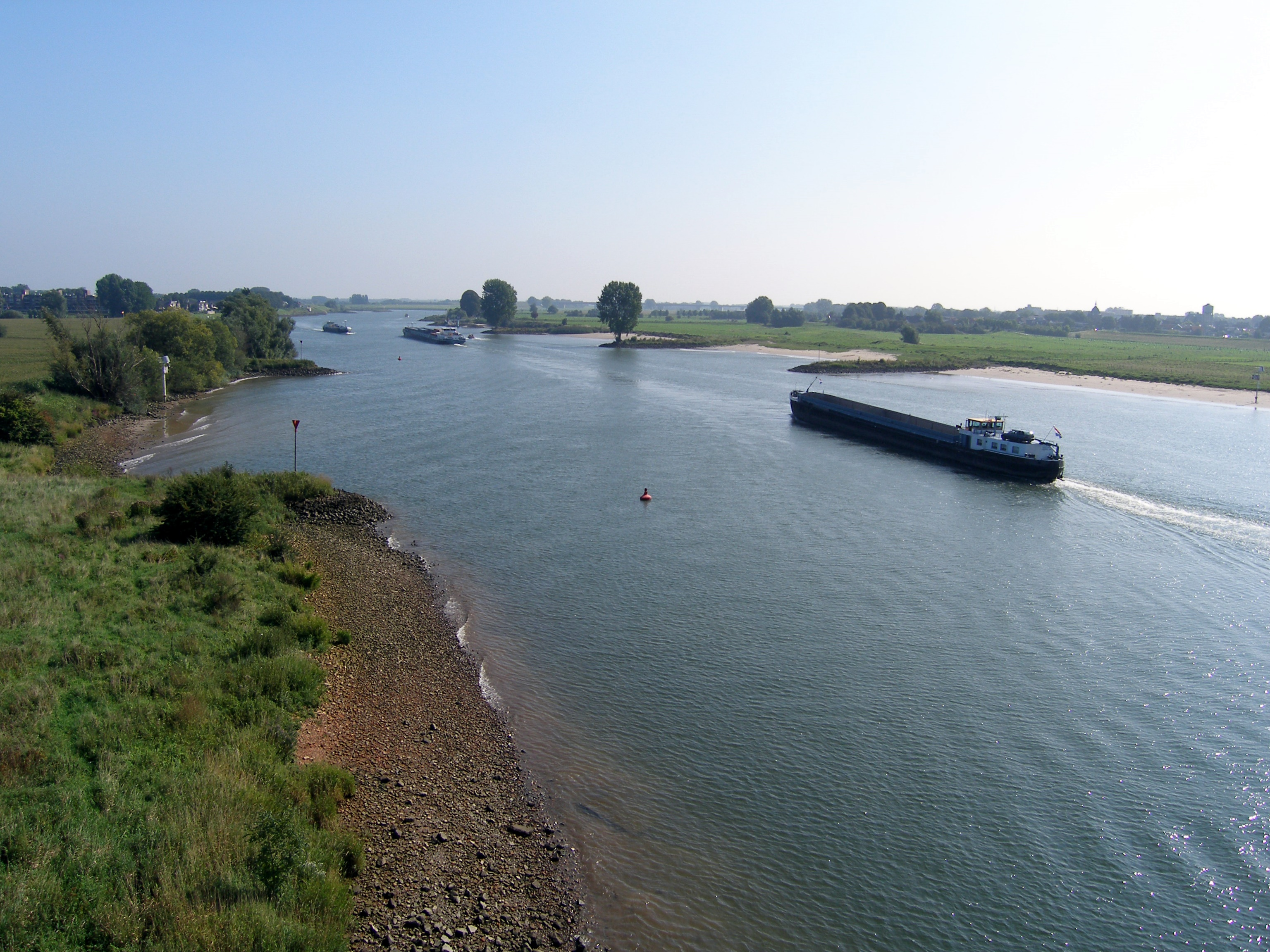 The Lek river near Nieuwegein (on the left bank) and Vianen (on the right bank).